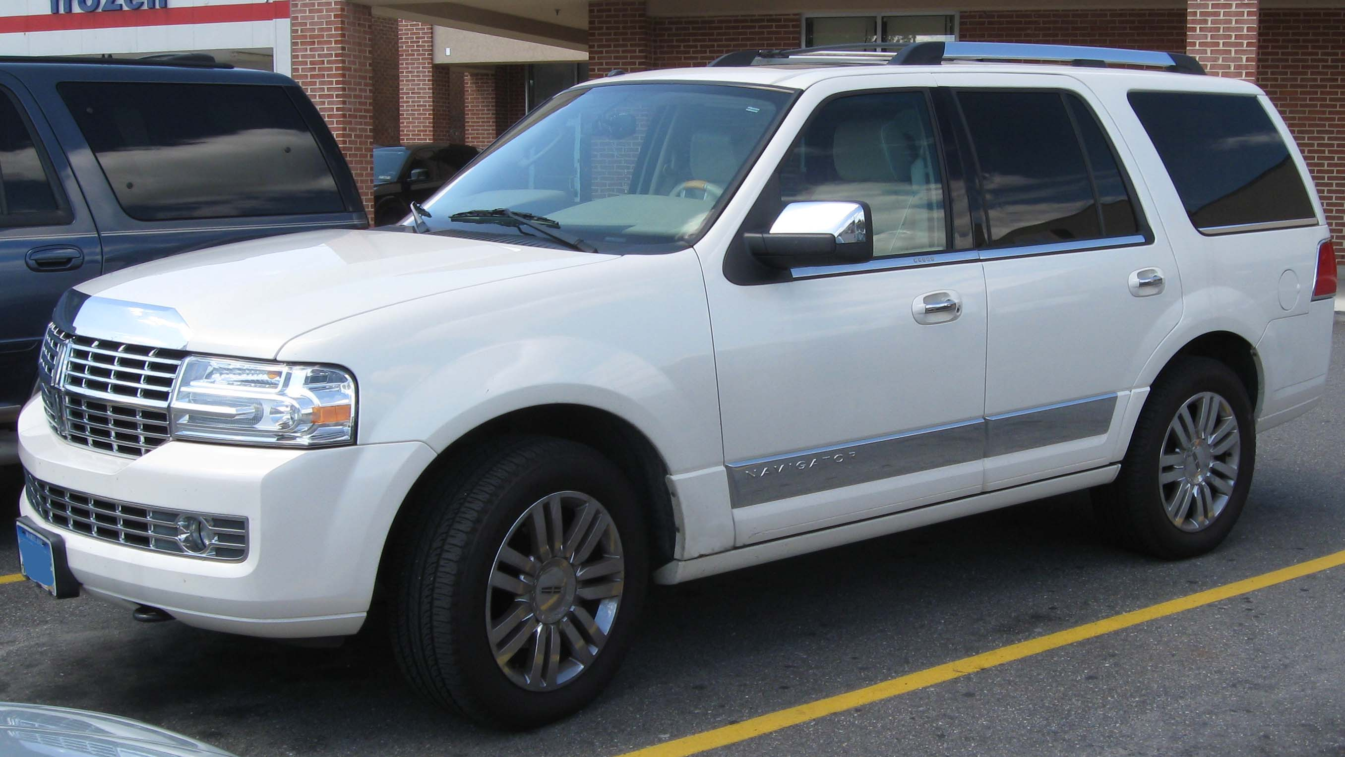 A 2007-2011 Lincoln Navigator photographed in Oxon Hill, Maryland, USA.